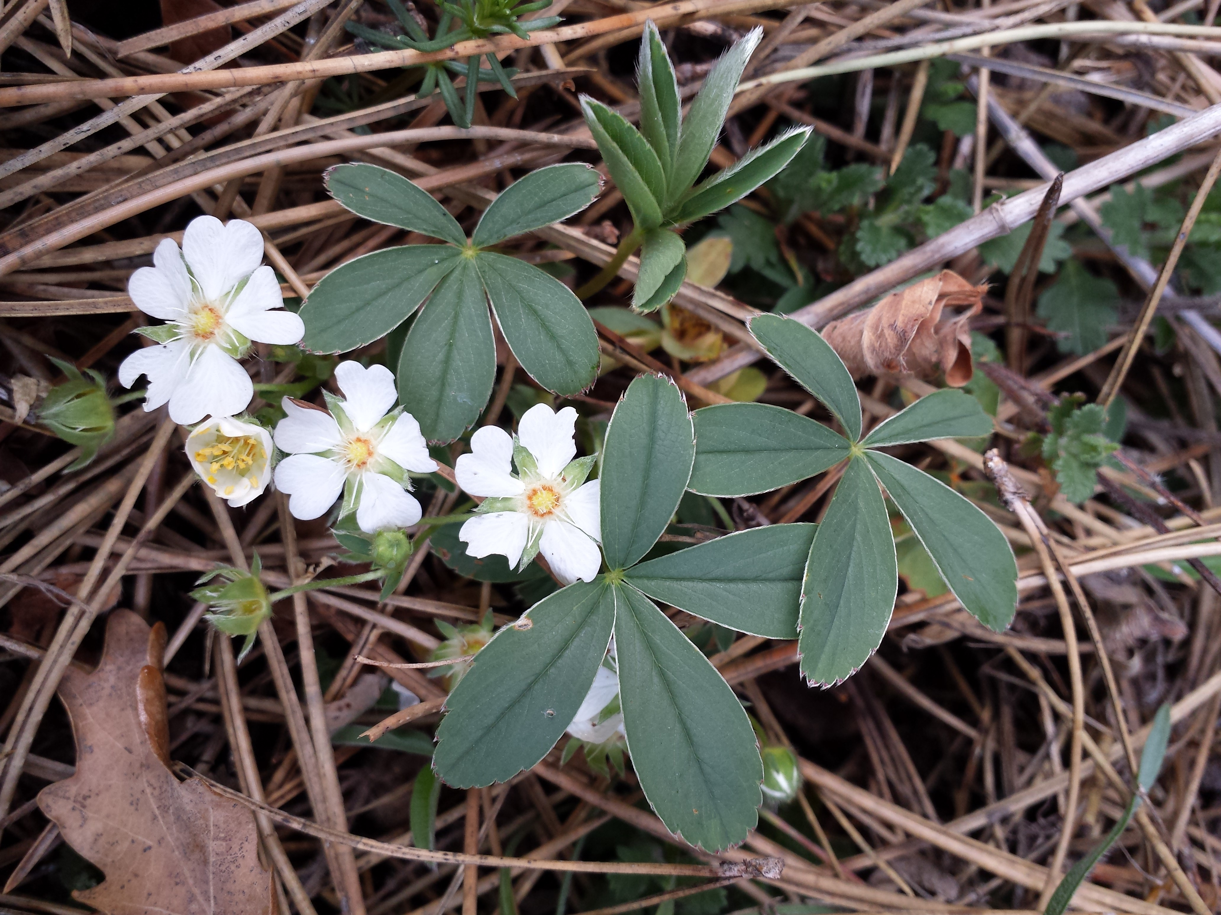 Habitus Taxonym: Potentilla alba ss Fischer et al. EfÖLS 2008 ISBN 978-3-85474-187-9 (det. W. Willner 2015-04-18) Location: Ternitz, district Neunkirchen, Lower Austria - ca. 450 m a.s.l. Habitat: poor grassland